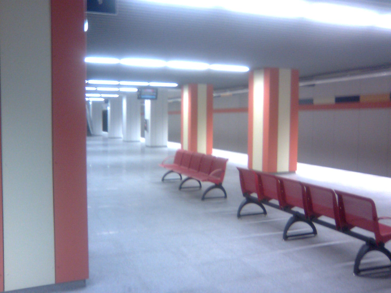 Policolor metro station in Bucharest, Romania, open November 20th, 2008